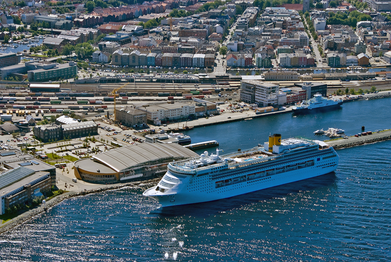 Costa Victoria ved Turistskipskaia i Trondheim havn. The cruise ship Costa Victoria at the cruise quay in Trondheim, Norway.